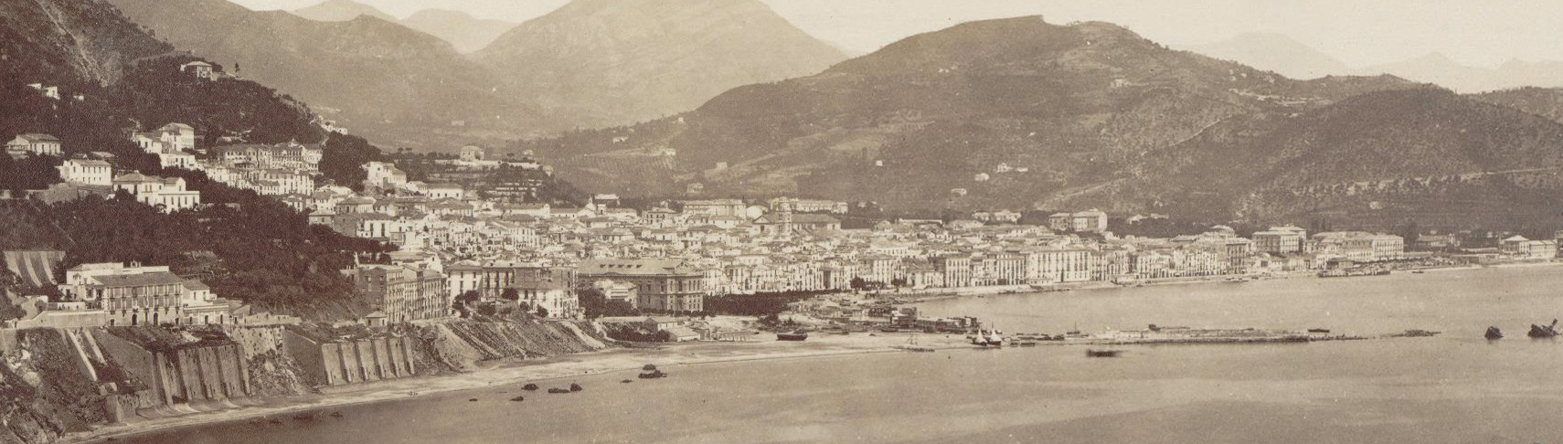 Souvenirs de voyages